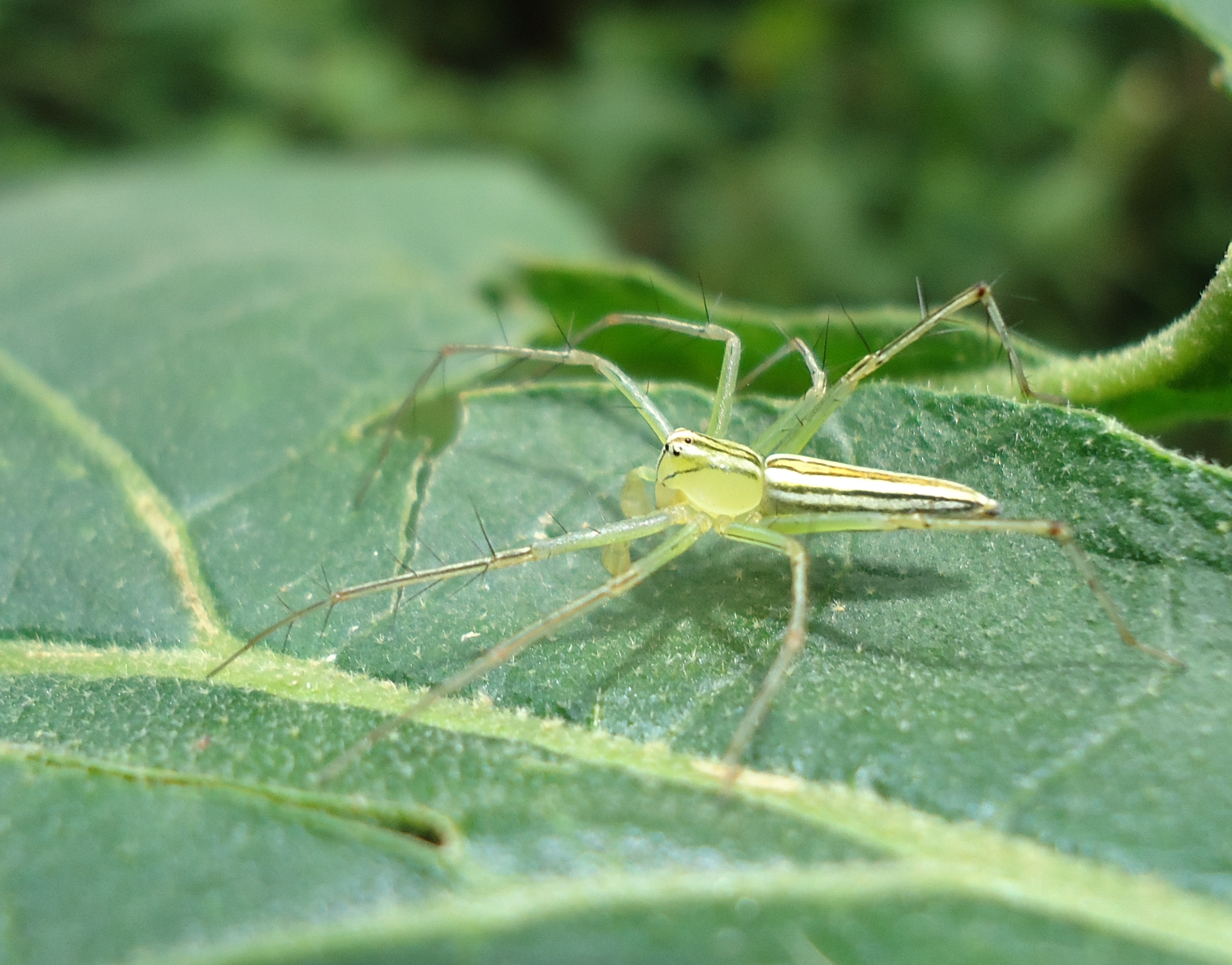 Male Oxyopes macilentus. (Philippines)